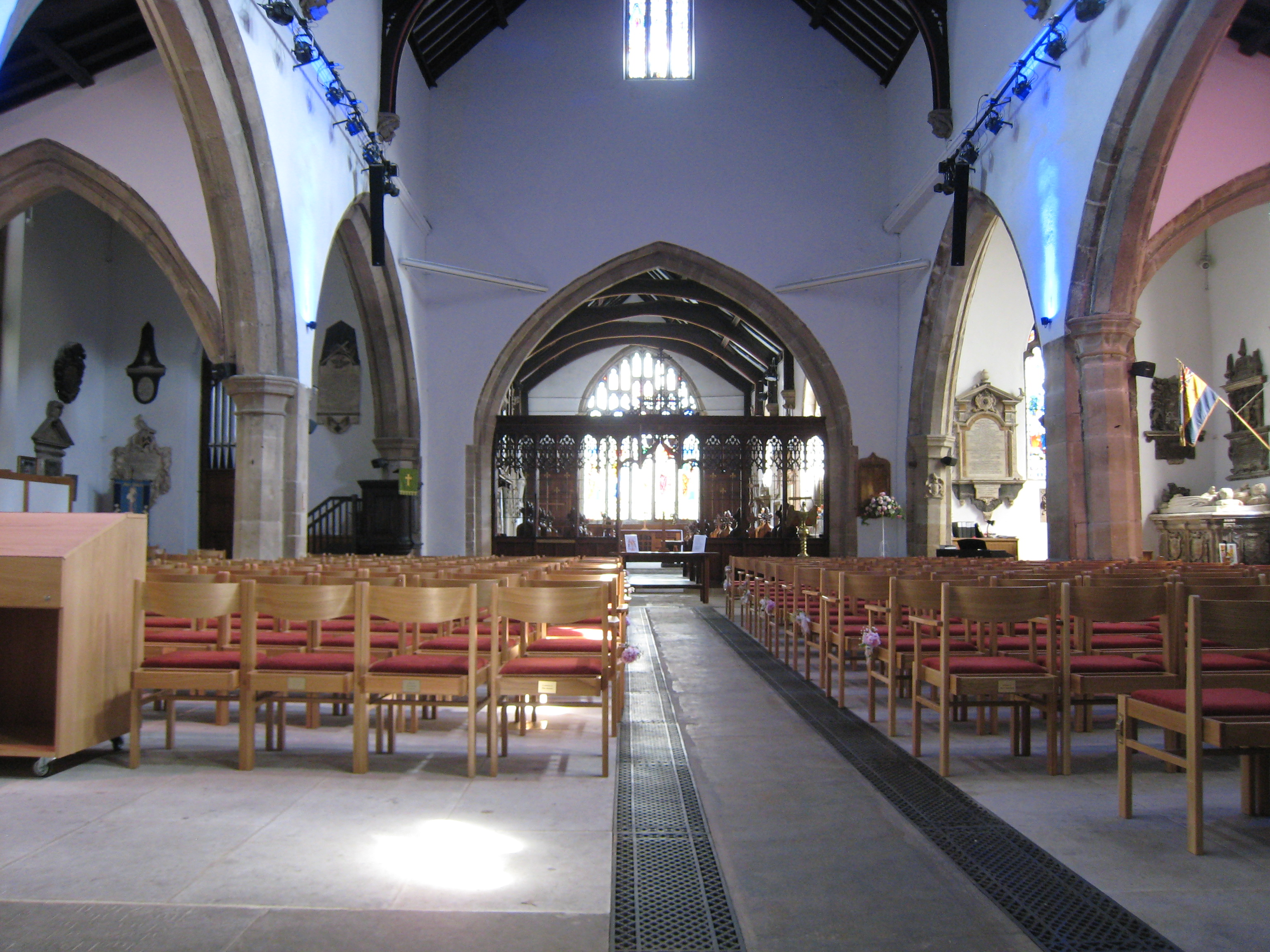 All Saints Parish Church, Kirkgate, Otley, LS21. Interior